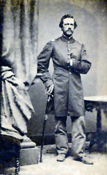 Benjamin Franklin Howey, US Representative from New Jersey